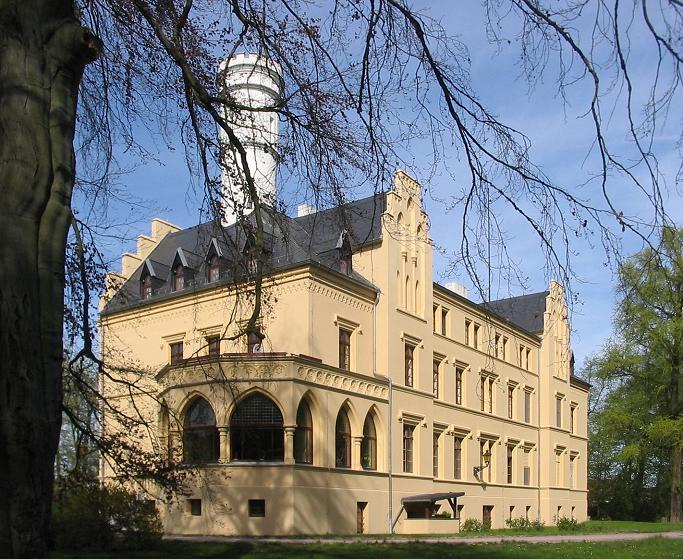 Castle Kropstädt, built around 1850 on the place of the former water castle Liesnitz, built in 1150. The community Kropstädt, district Wittenberg, state Saxony-Anhalt, Germany, is situated in the Nature park Fläming.